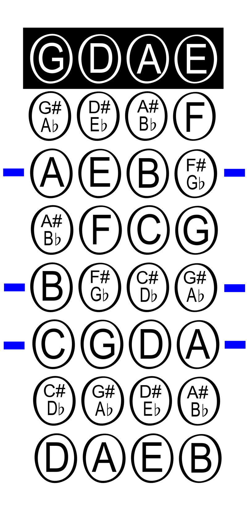 Violin first position fingering chart, with "training wheels" tapes for 1st, high 2nd, and 3d fingers.